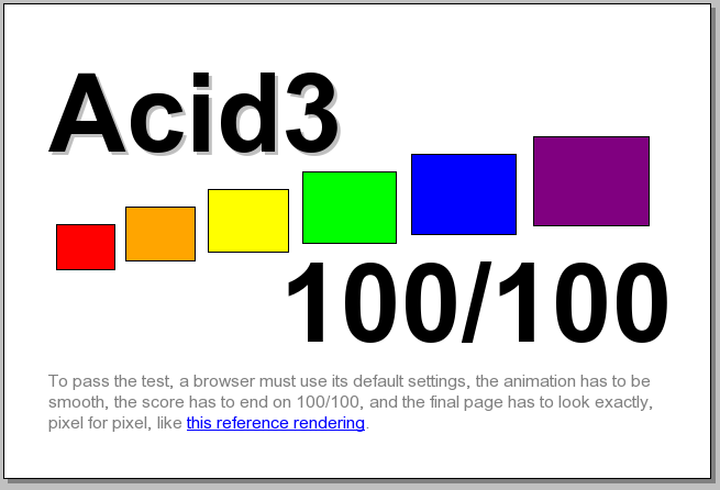 Development build of Opera passing Acid Test 3. Official released screenshot of the success. Screen capture taken from